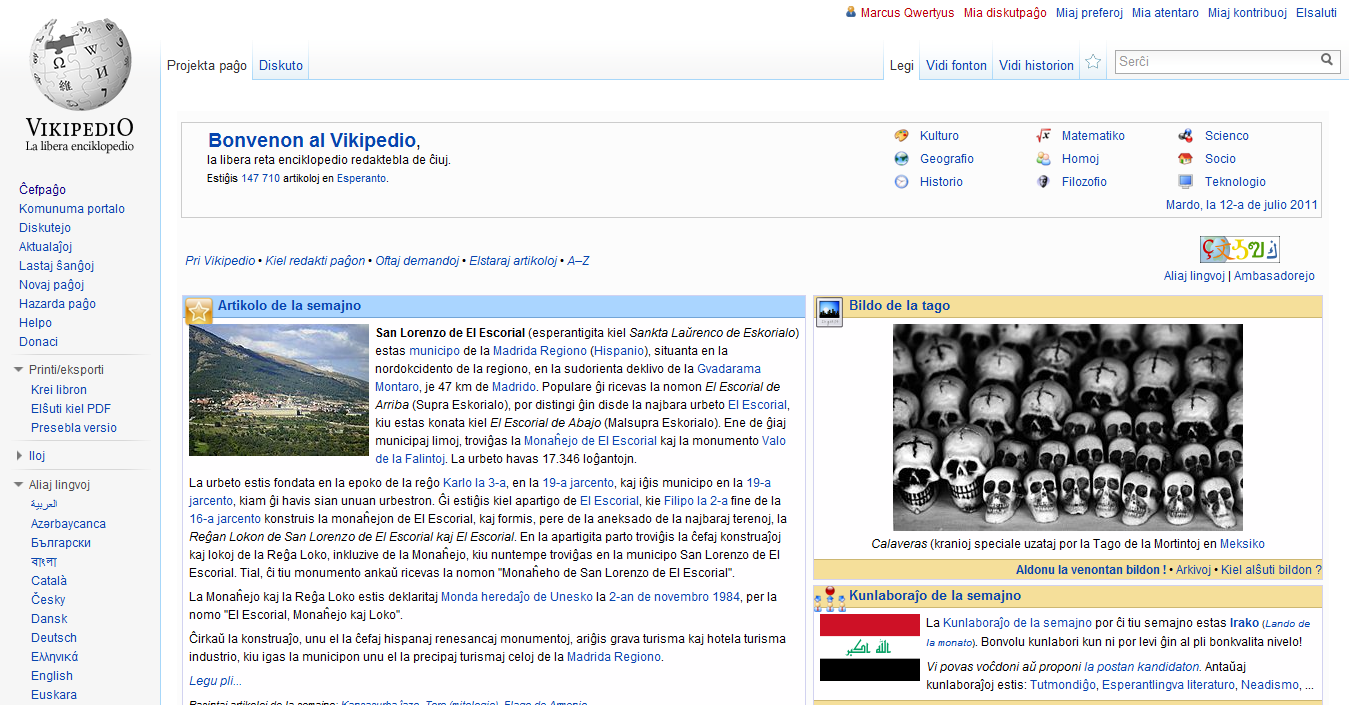 Screenshot of the Esperanto Wikipedia home page